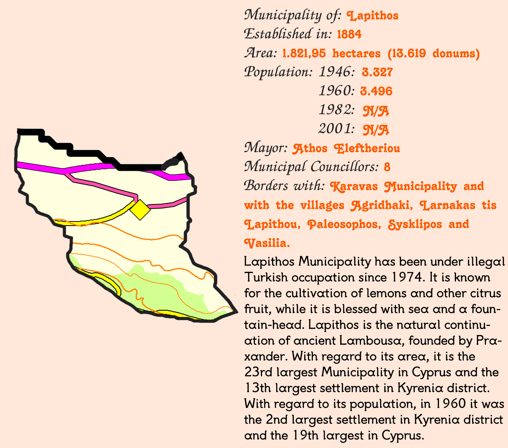 Concise presentation of Lapithos